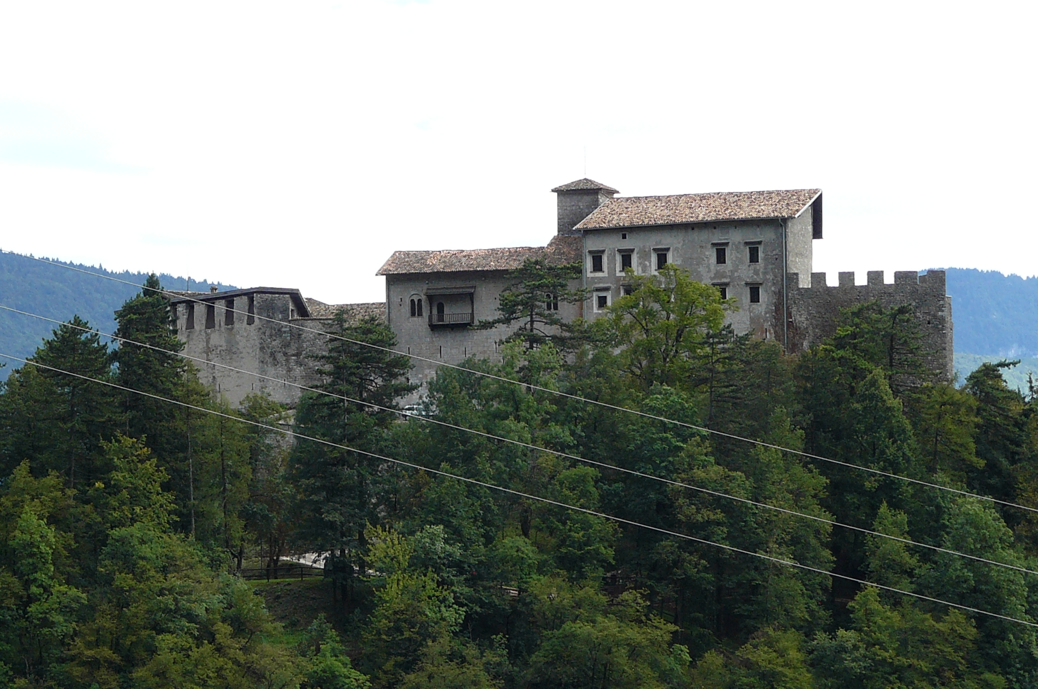 Castel Stenico